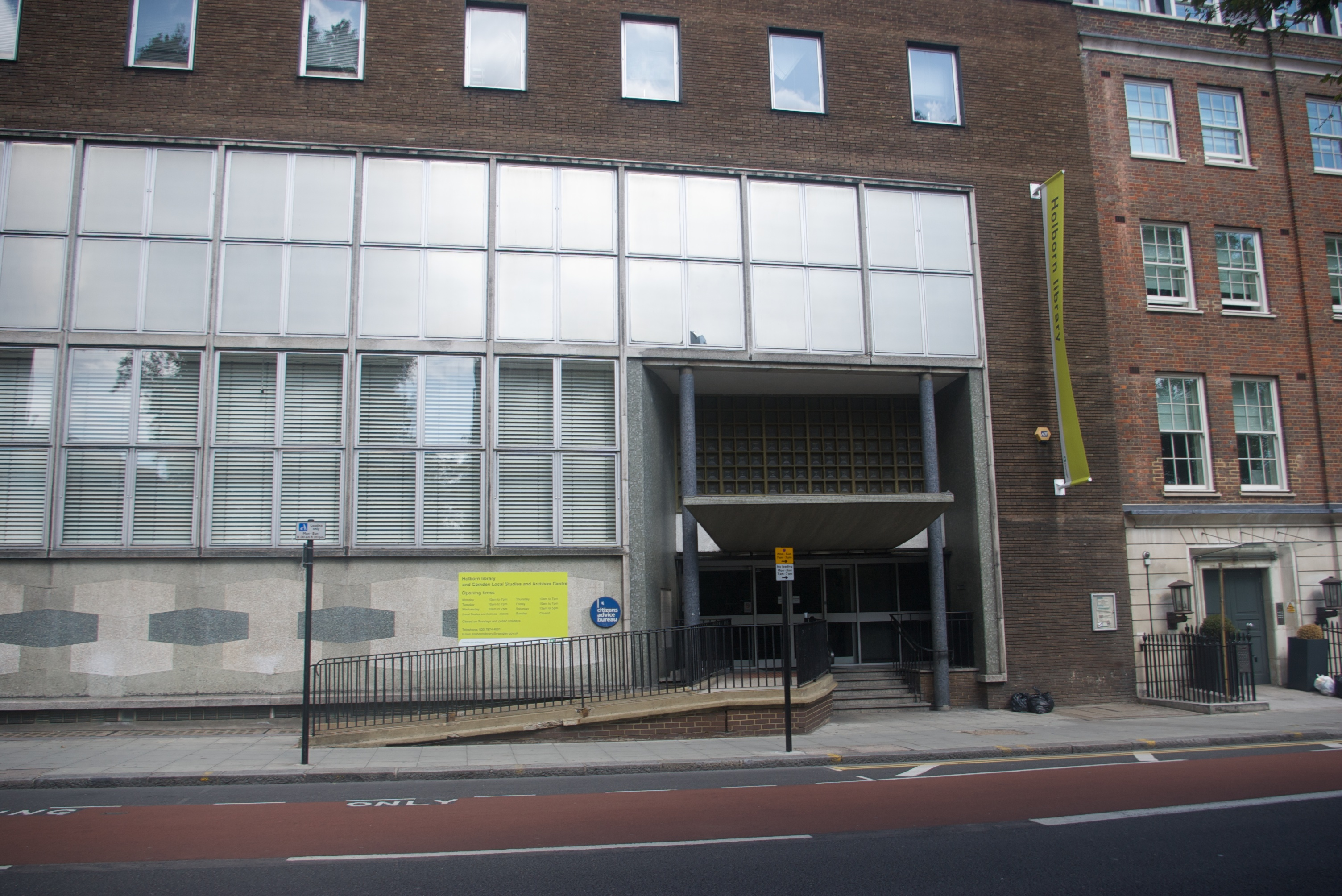 Holborn Library on Theobald's Road, opposite Gray's Inn Field.